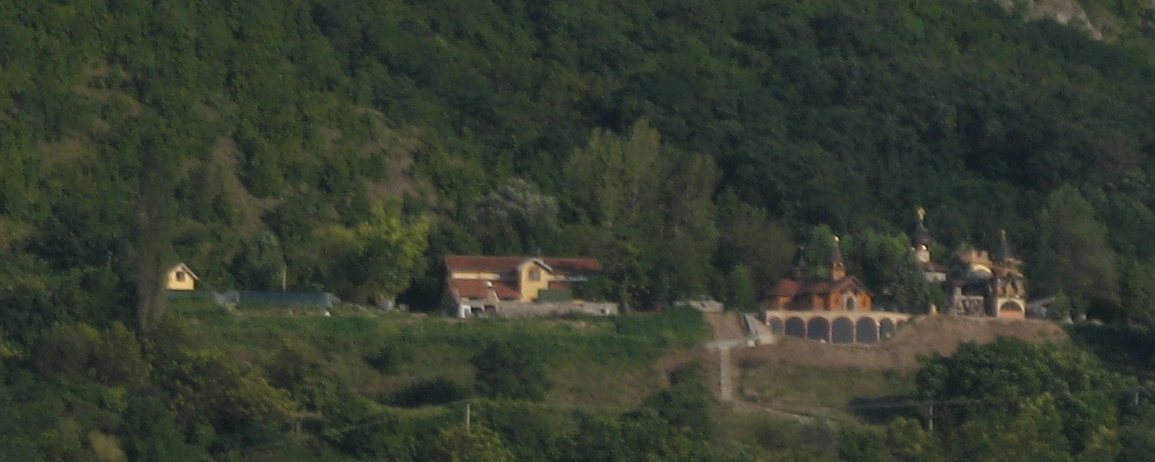 View on Lešje monastery near Paraćin,Serbia.